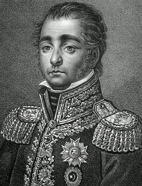 Horace Sébastiani (1772-1851), french marshall and statesman